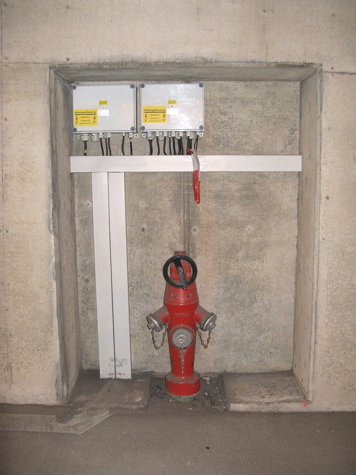 Warnow tunnel in Rostock, Germany, fire hydrant